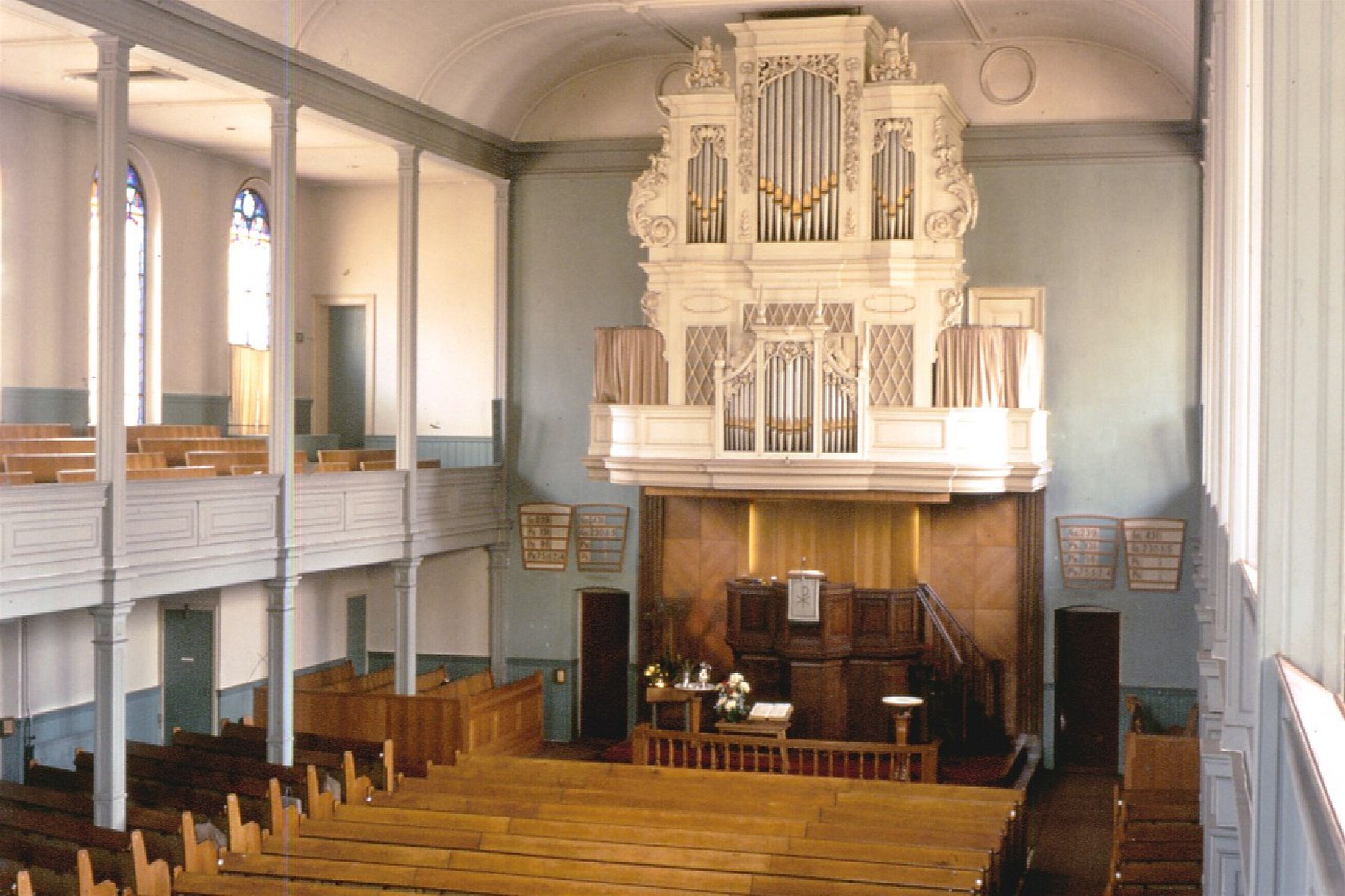 Ruprecht organ in the Oosterkerk Maliebaan 53 in Utrecht, Netherlands